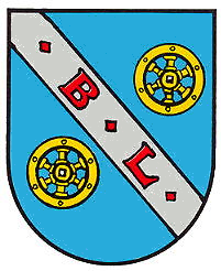 Coat of arms of Bolanden